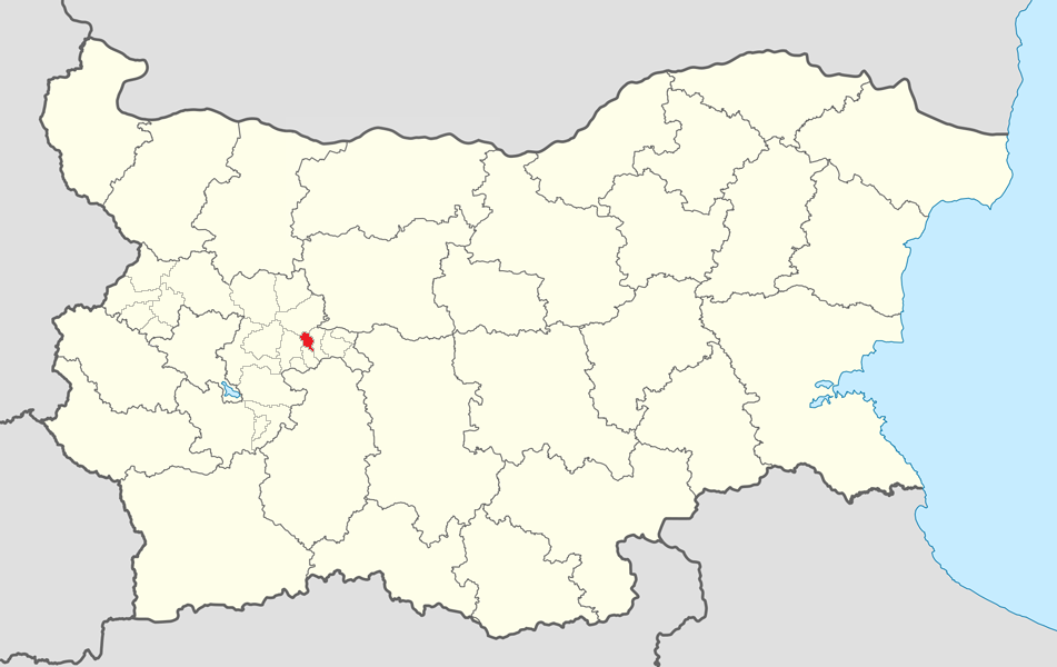 Location map of Chelopech Municipality within Bulgaria and Sofia province